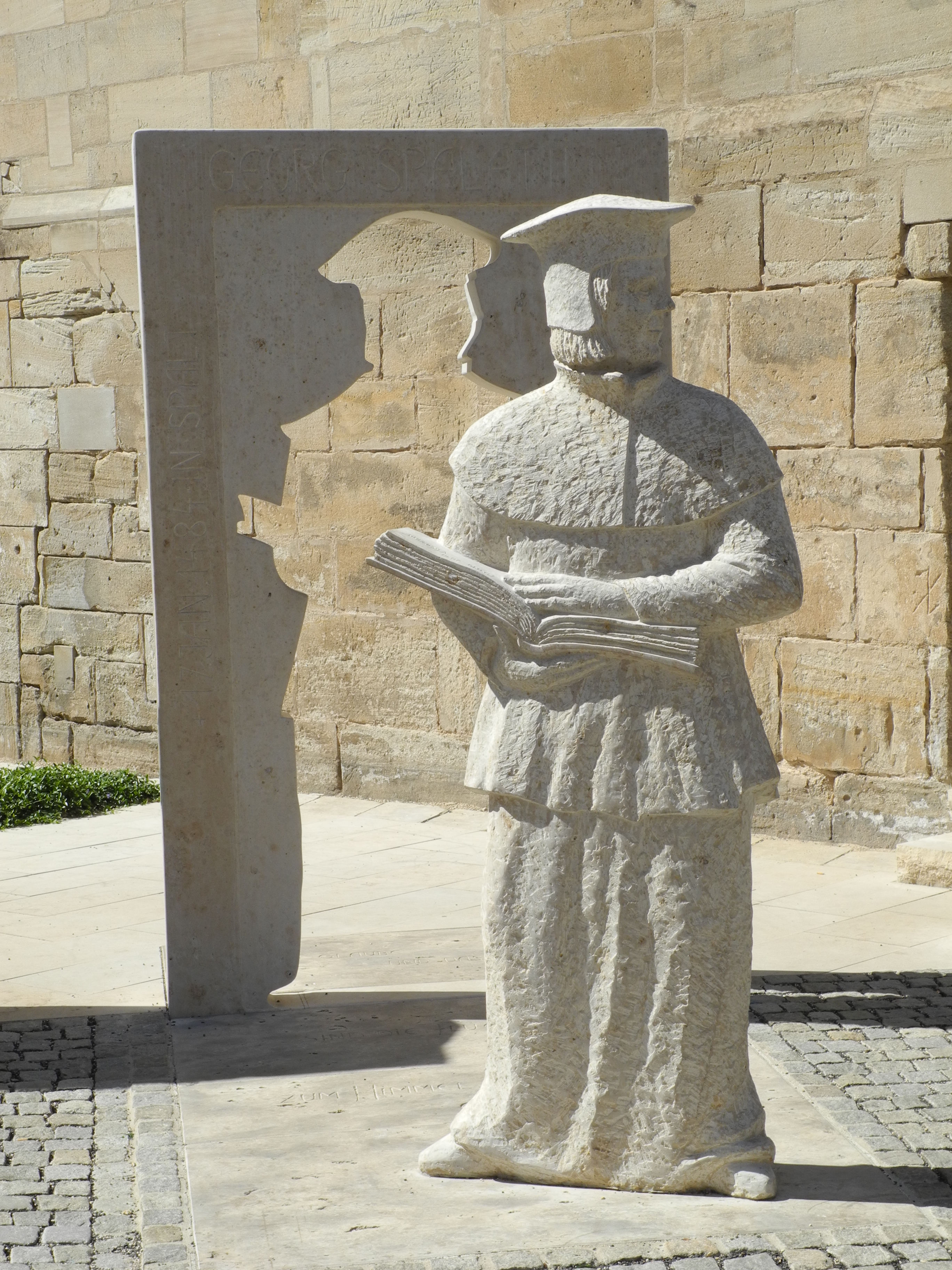 Spalatin memorial (Georg Spalatin) in Spalt (Franconia, Germany)